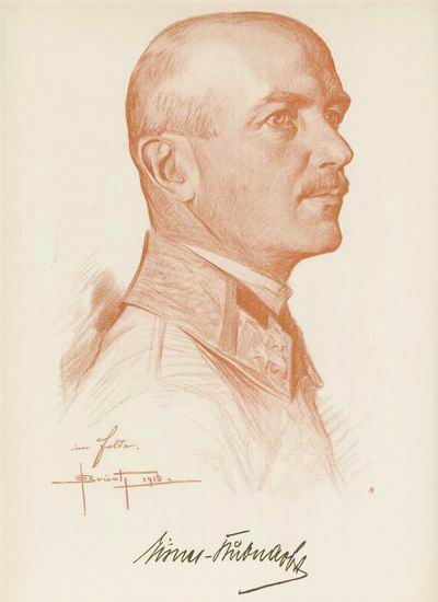 portrait of Oberst Wilhelm Eisner-Bubna (1915 by Oskar Brüch)